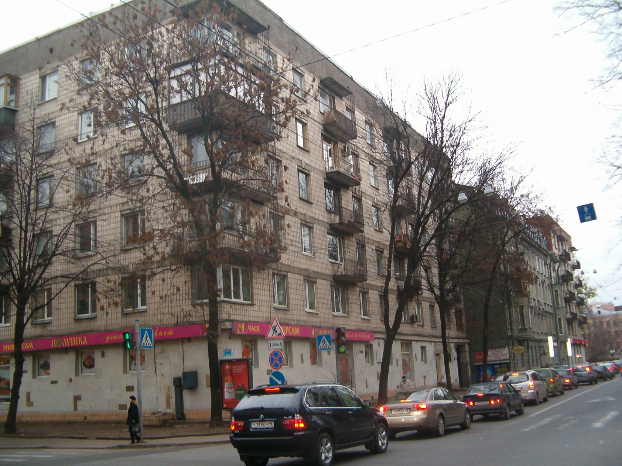 Bolshaya Pushkarskaya street, 44 / Lenina street, 7, Saint-Petersburg, Russia.